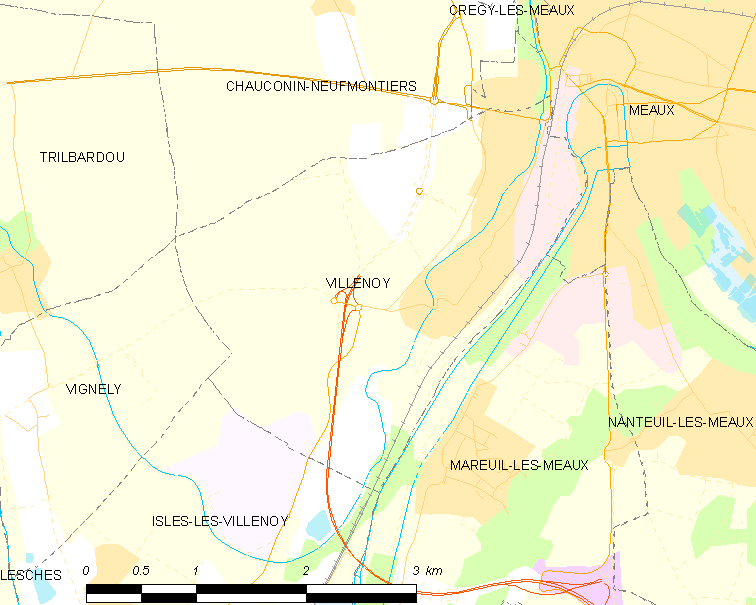 Map of French municipality Villenoy